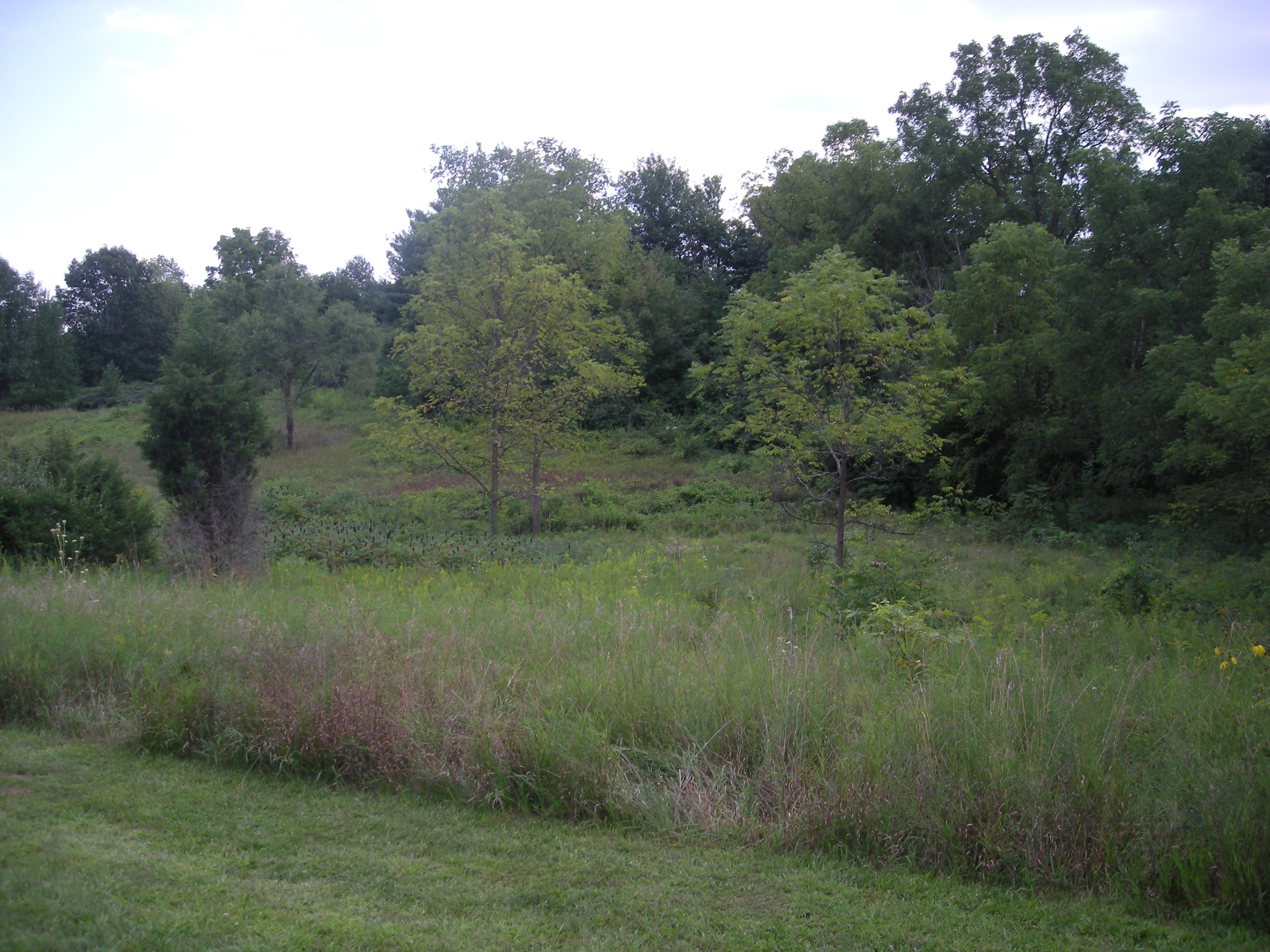 Fox Hollow Prairie at County Farm Park in Ann Arbor, Michigan (United States).